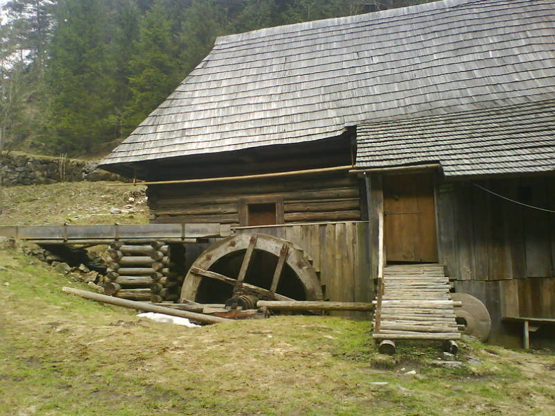 Kvacianska vallery - Mills Oblazy